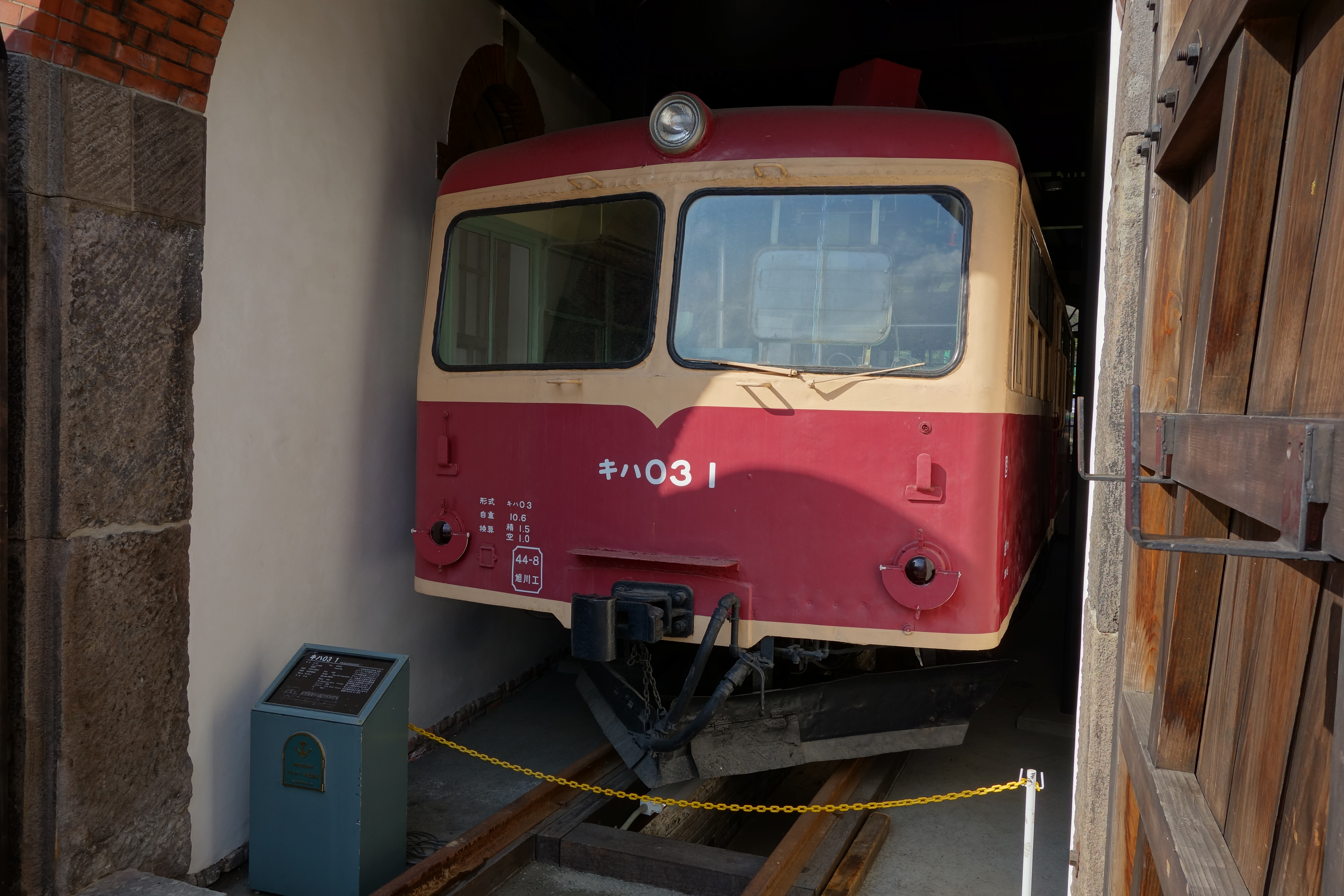 JNR Kiha03 Diesel car in Otaru Museum.